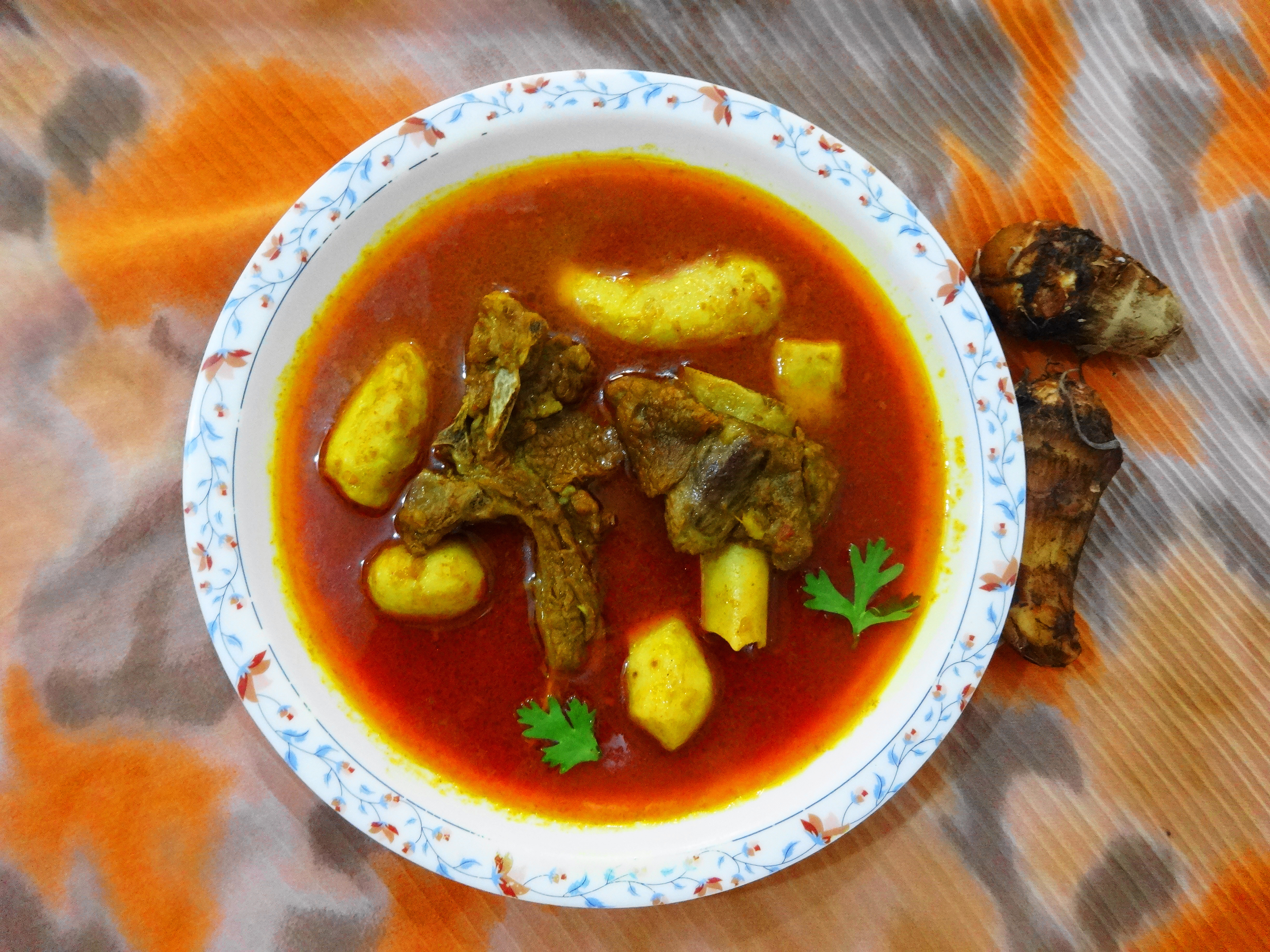 اروی گوشت